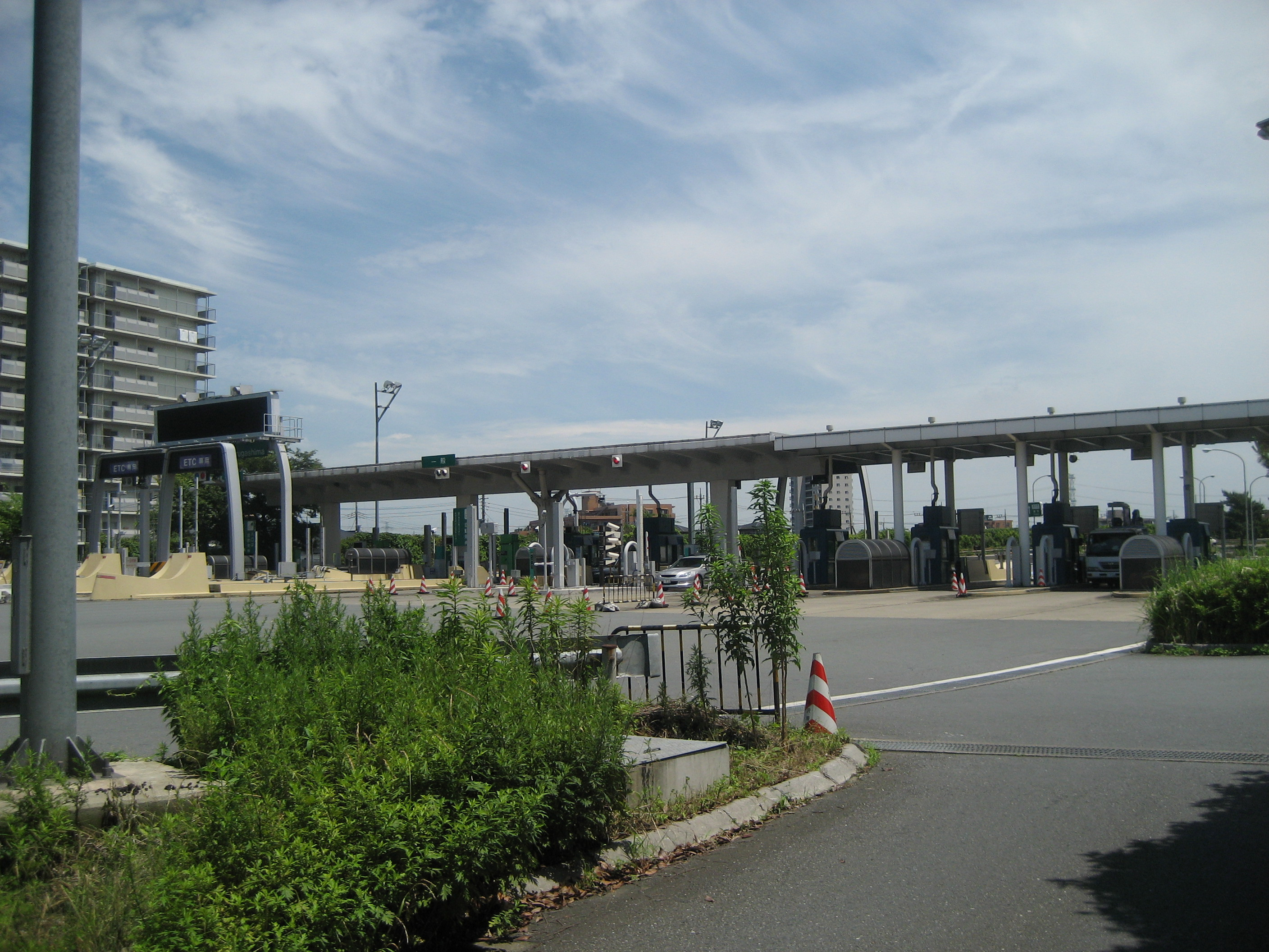 Toll gates at Tsurugashima Interchange on the Kan-etsu Expressway